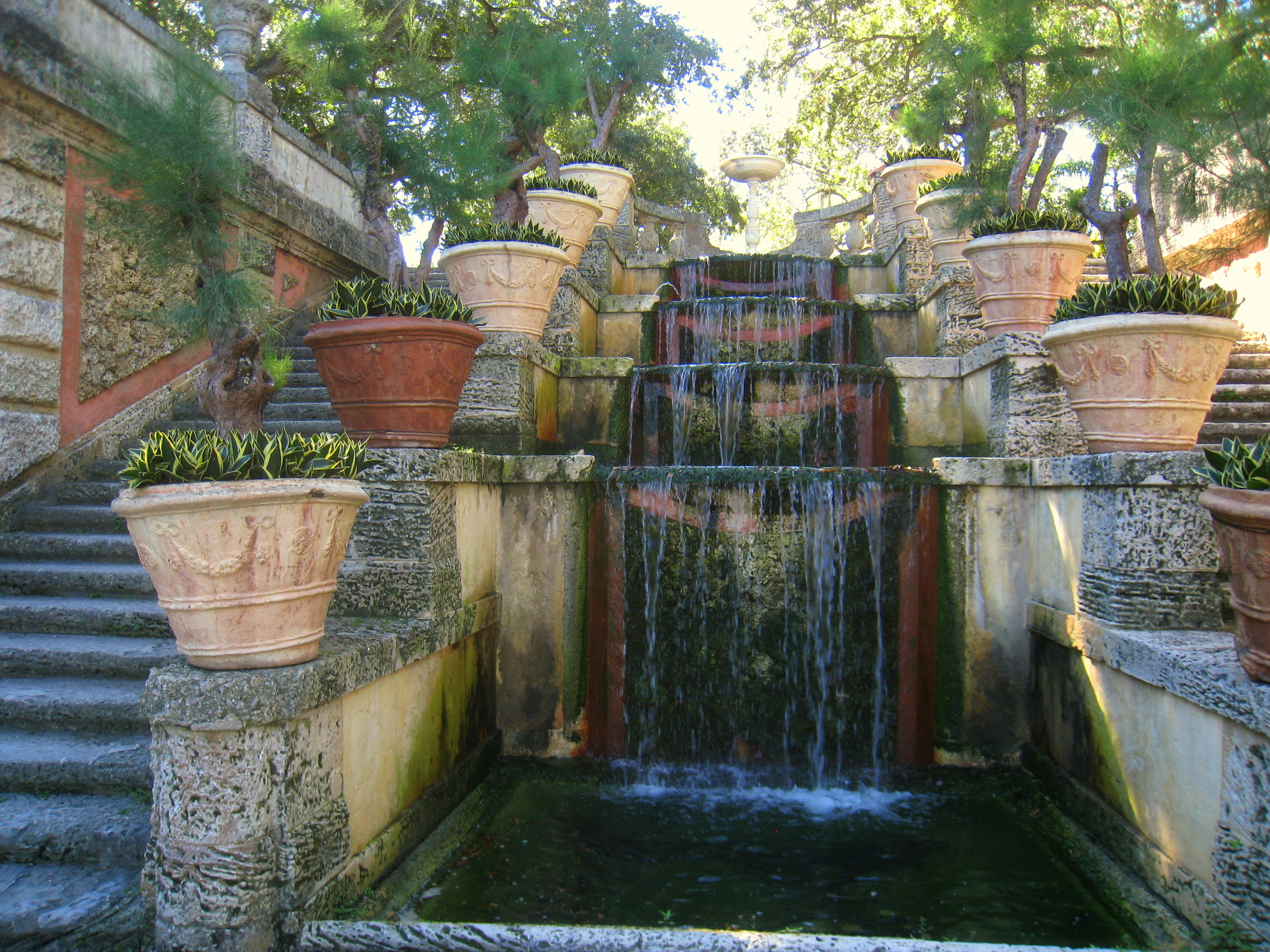 'Water stair' fountain in the garden at Villa Vizcaya 3251 South Miami Avenue, Coconut Grove, Miami, Florida, USA.